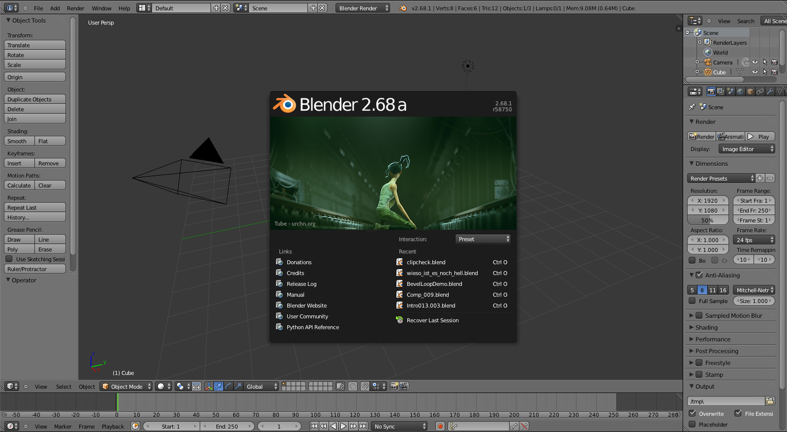 Welcome screen of Blender version 2.68a with the default theme and startup scene.